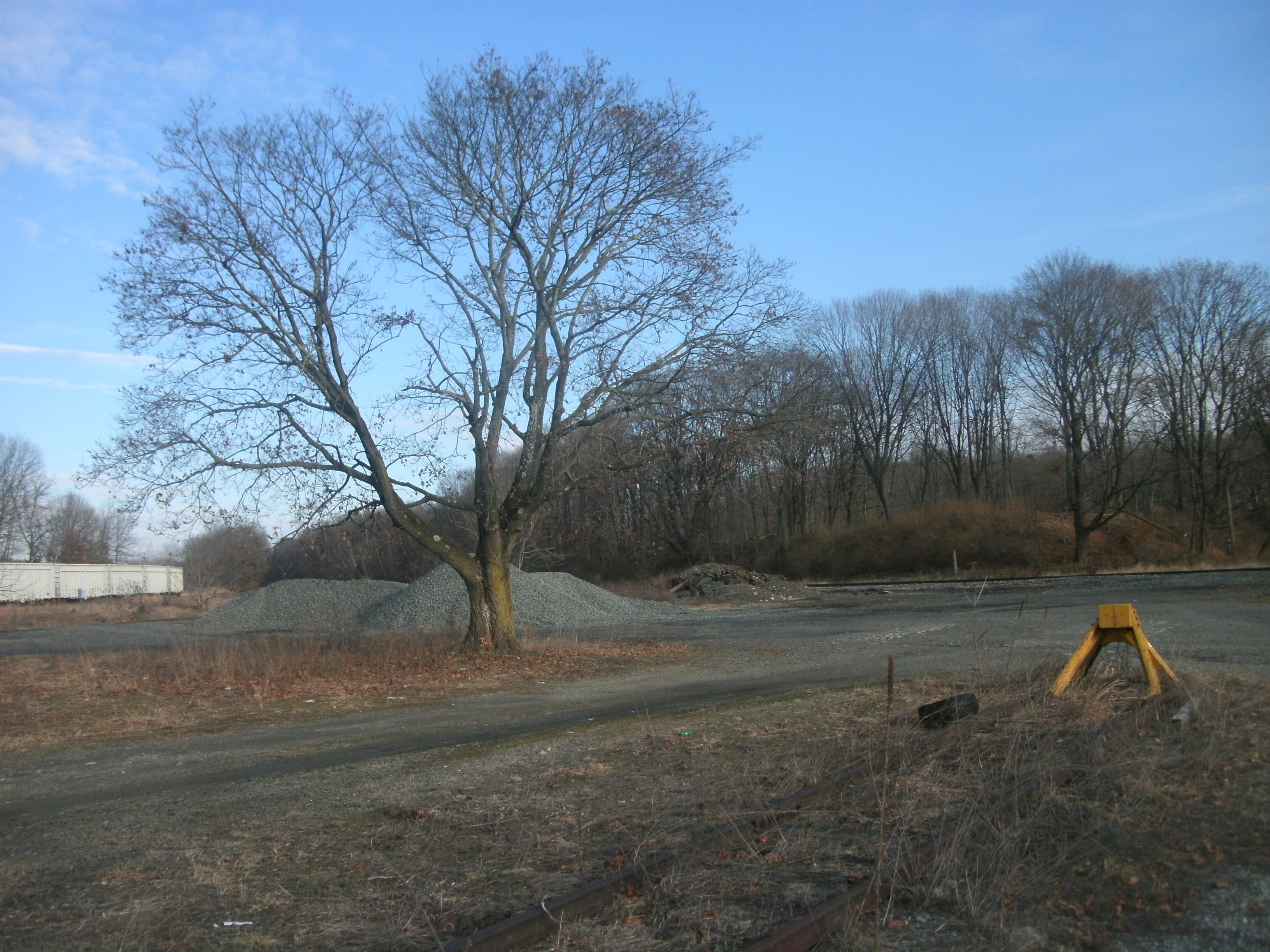 The former station depot site for the Delaware, Lackawanna and Western Railroad station in Washington Borough, Warren County, New Jersey.